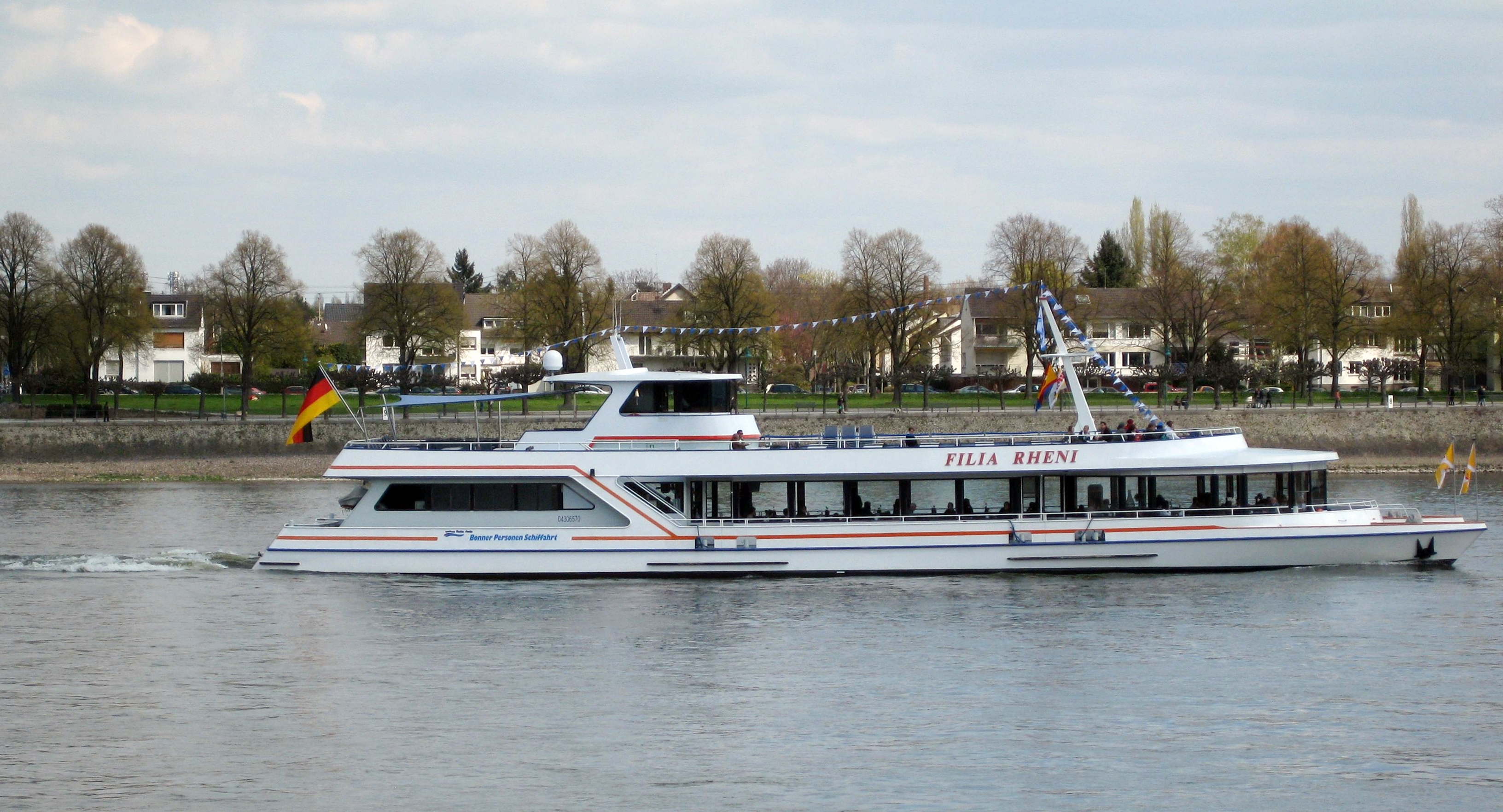 Bonn,Passenger ship (catamaran) "Rheinprinzessin" on the Rhine river.